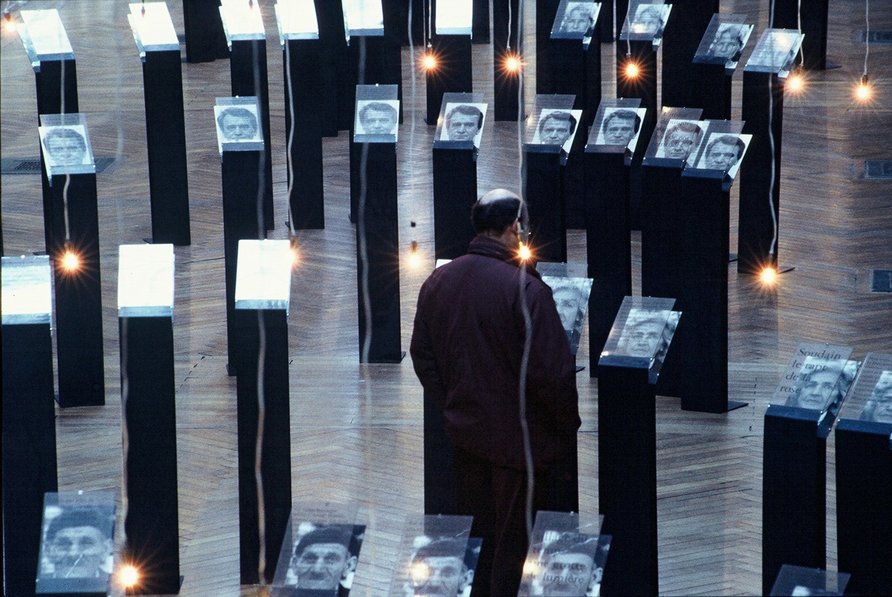 Légende (s) is an exhibition composed on the principle of hypertext, 12 writers subtitling the portraits of 10 inhabitants of Sarajevo or 120 portraits commented as if in abyss of other contemporary alterities